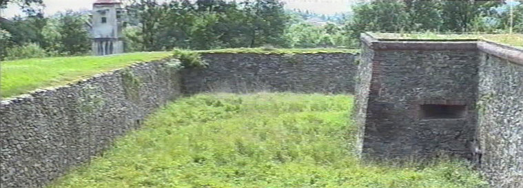 Castle Kaceřov - moat